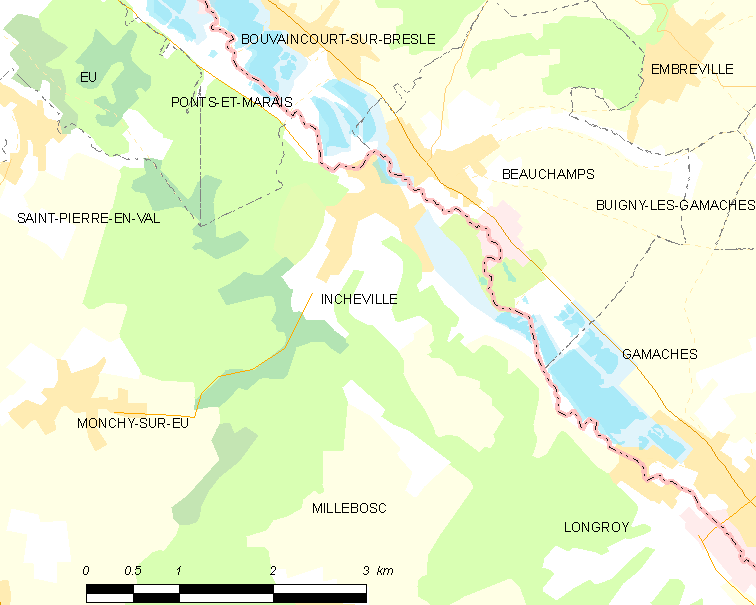 Map of French municipality Incheville